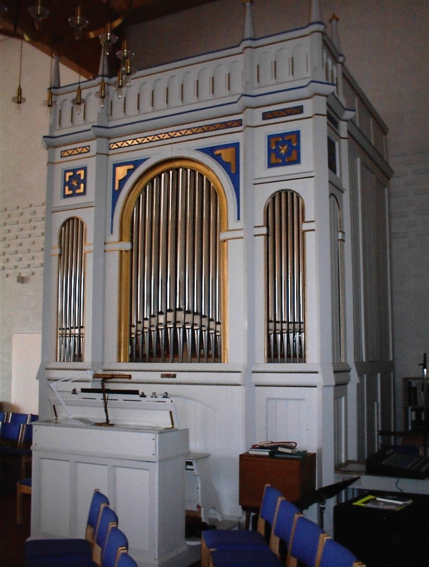 Konnerud church, Drammen, Norway, organ